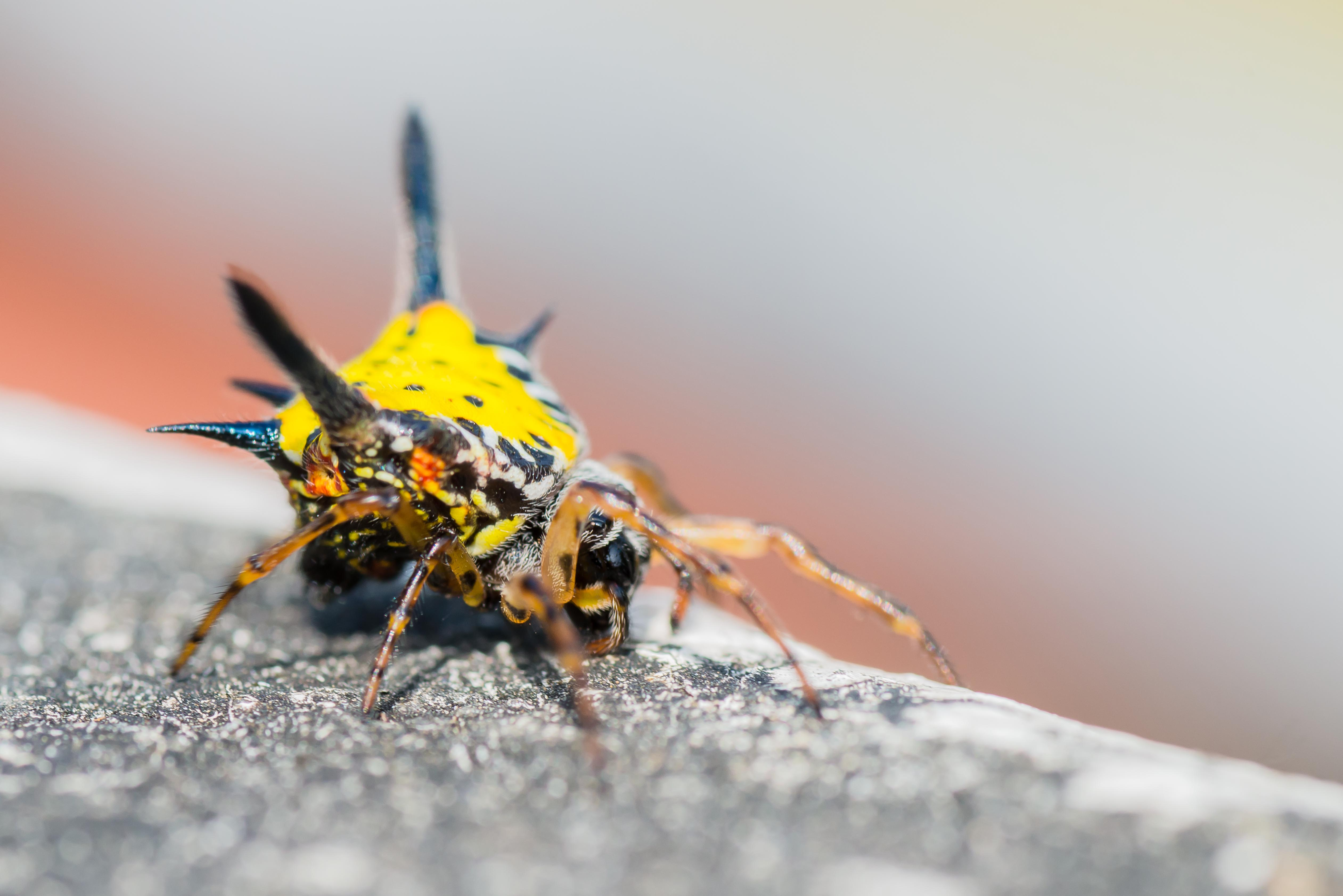 This photo is published under Creative Commons Attribution-Share-Alike Licence, means you are free to use this photo with attribution under same licence. For credits, please use following; Owner: Thai National Parks Link